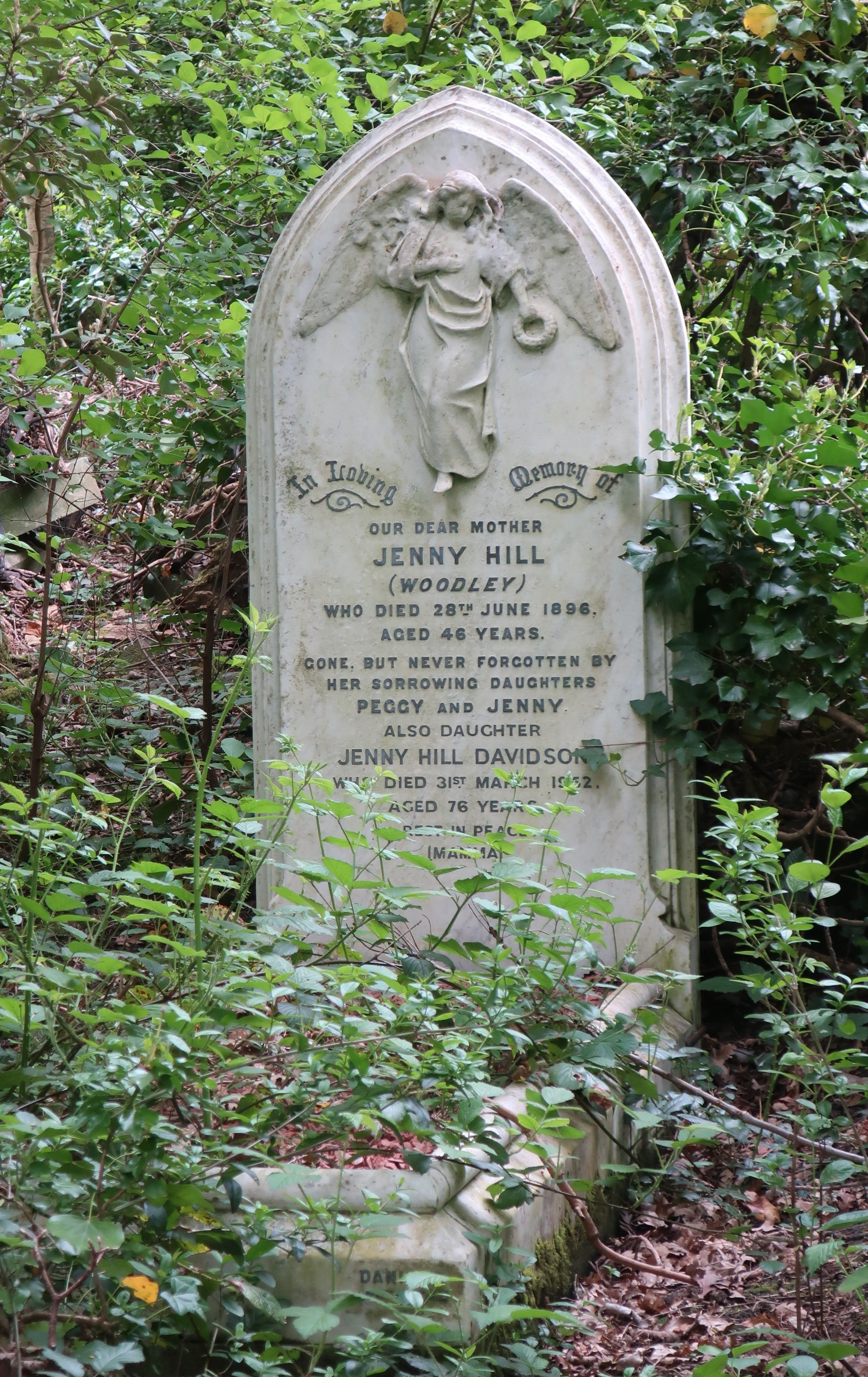 Grave of Jenny Hill (1848–1896), music hall performer, in Nunhead Cemetery, London SE15